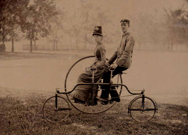 Tintype of Annie Shrock Wright and Joseph Bidmead Wright, M.D. (1859-1944), on tricycle, circa 1900